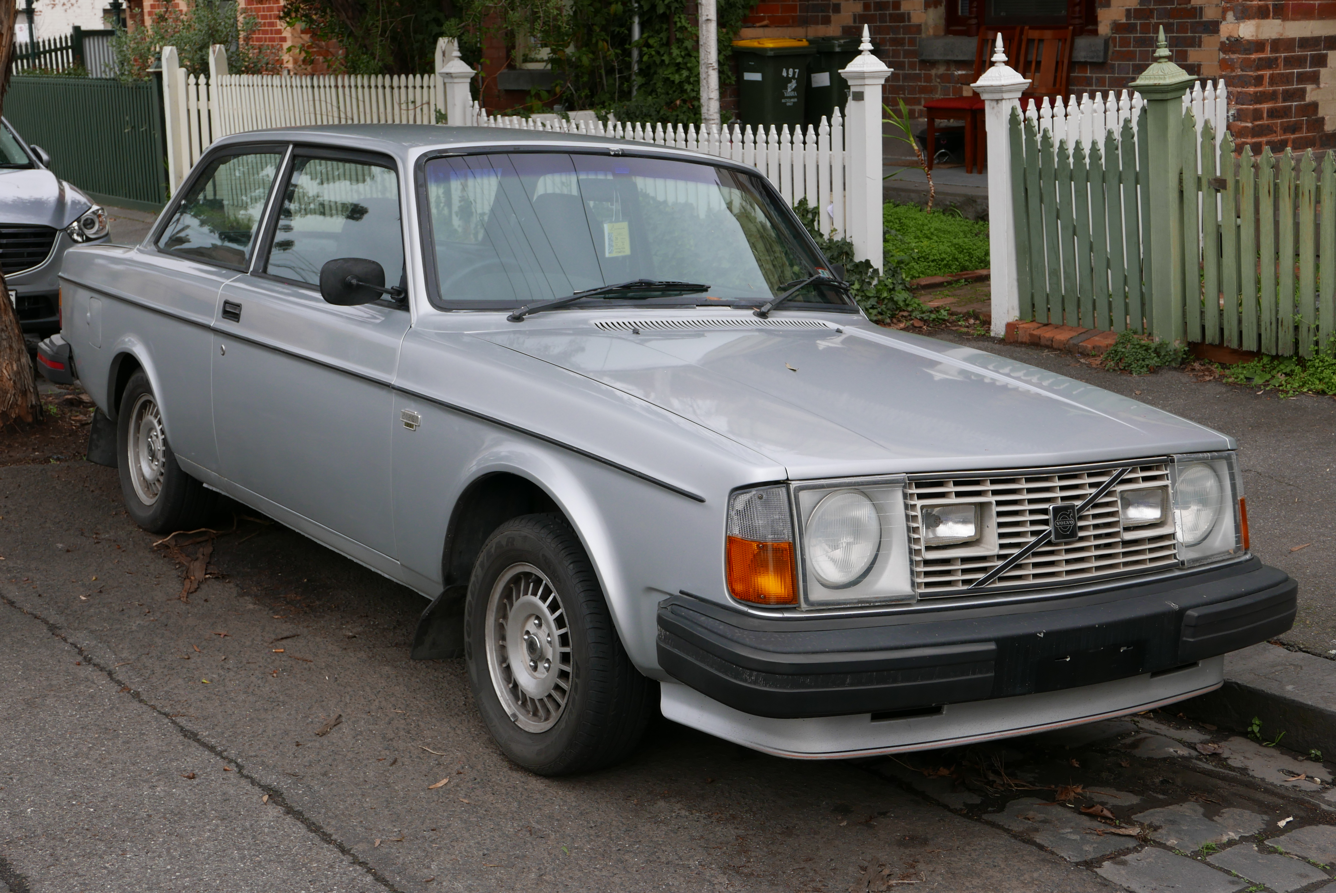 1979 Volvo 242 GT 2-door sedan. Photographed in Carlton North, Victoria, Australia. Vehicle registration enquiry results Jurisdiction Victoria Registration ZJS091 Chassis code 2428M1162526 Engine code 49878601805 Compliance date 1979-01 Year of manufacture 1979